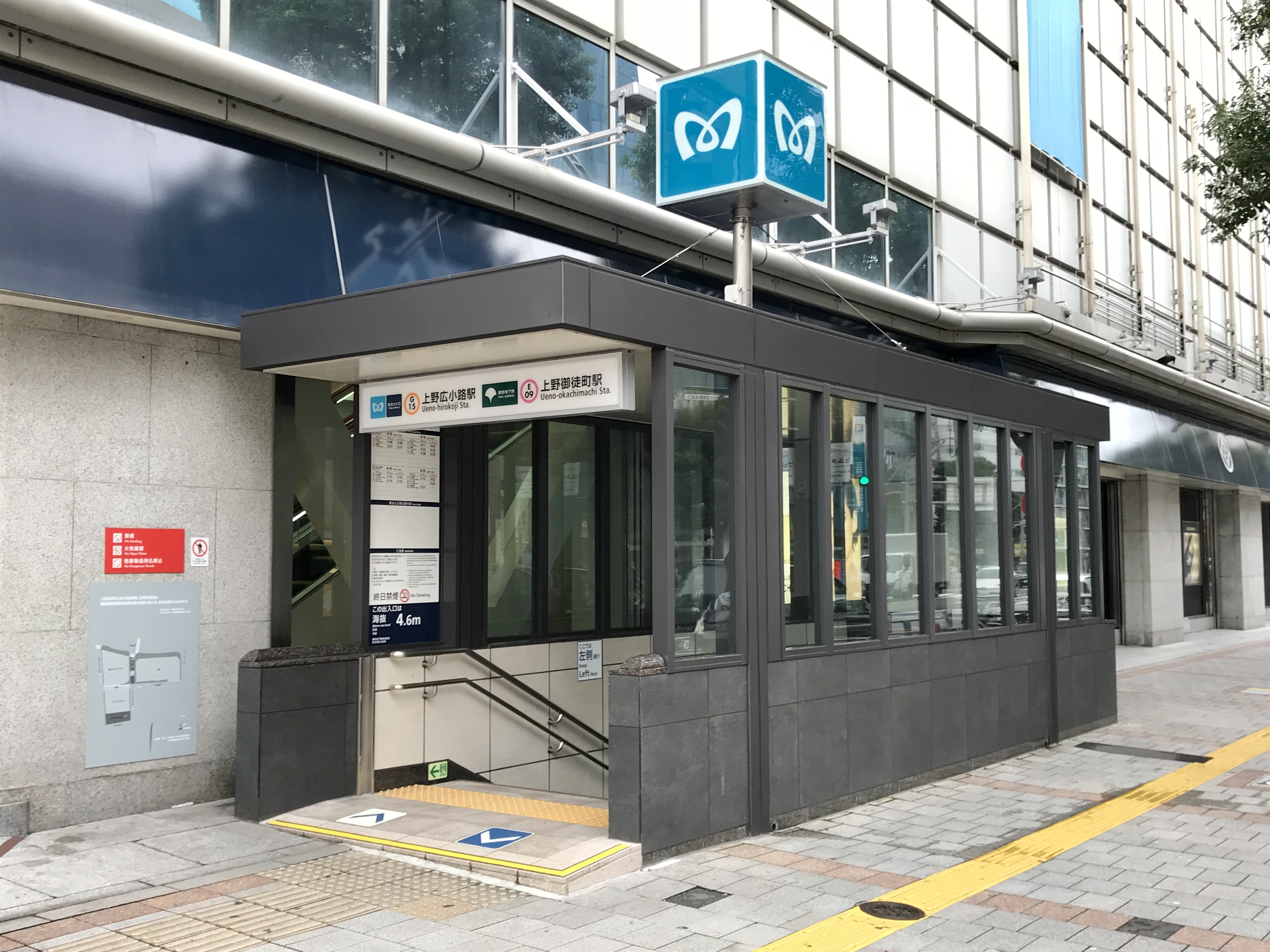 Exit A2 at Ueno-Hirokōji Station on the Tokyo Metro Ginza Line